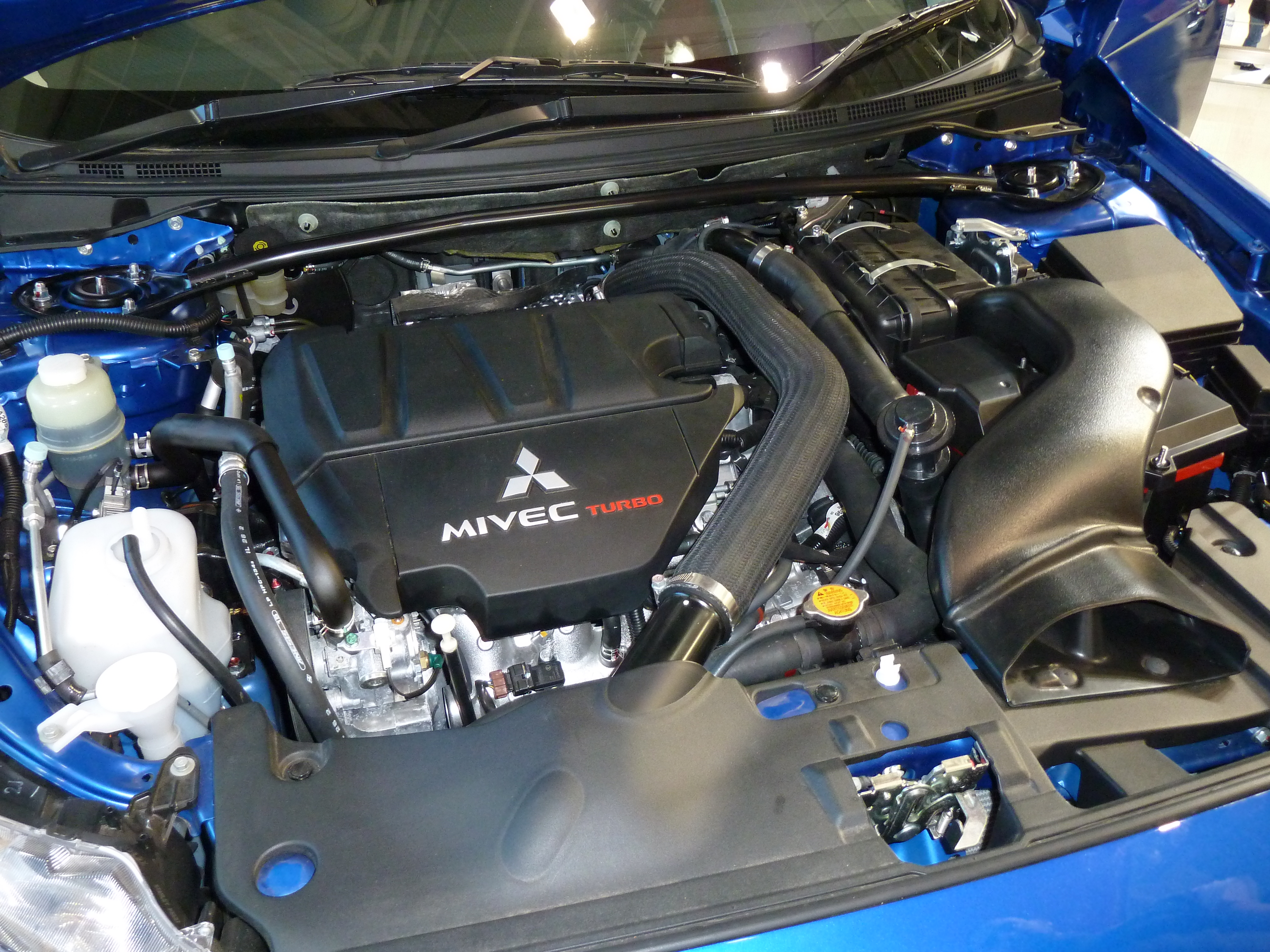 2010 Mitsubishi Lancer (CJ MY11) Ralliart Sportback hatchback. Photographed at the 2010 Australian International Motor Show, Sydney, New South Wales, Australia.